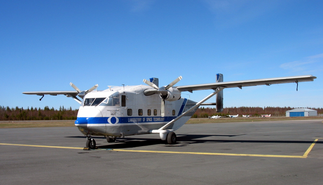 Short SC.7 Skyvan at the Oulu Airport